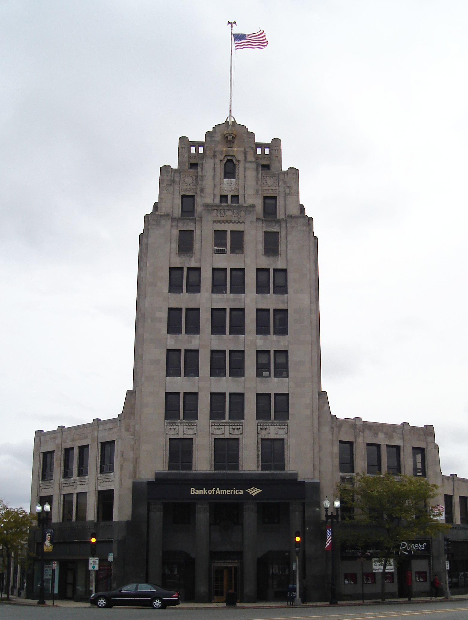 Granite Trust Company building in Quincy, Massachusetts, built in 1929 and added to the National Register of Historic Places in 1989. External link